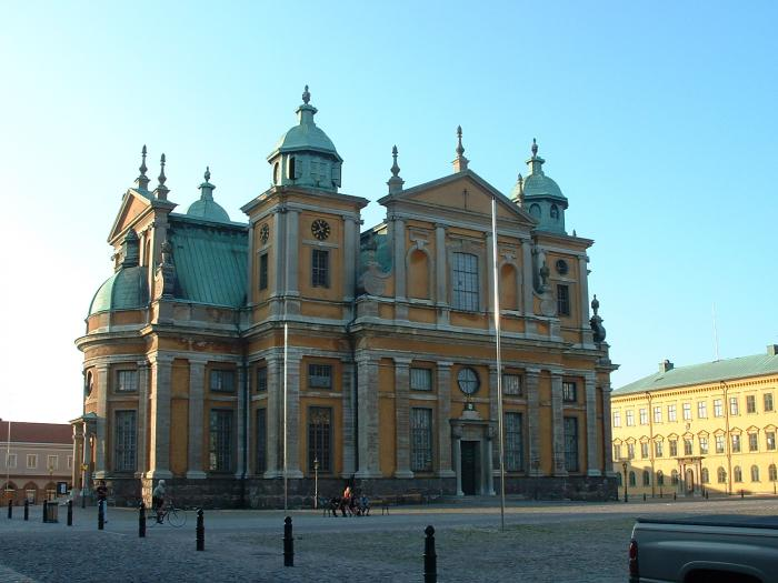 Kalmar Cathedral